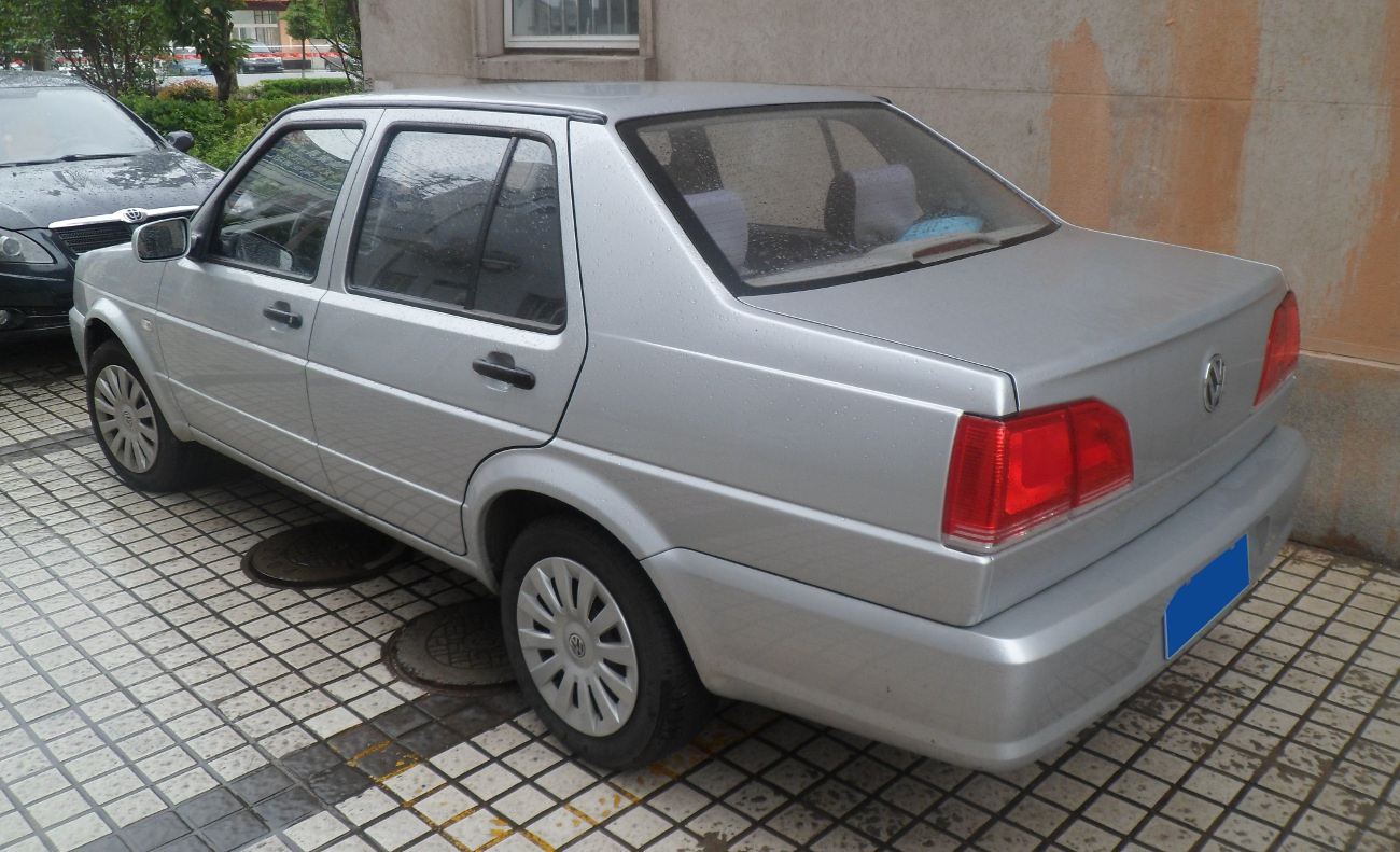 Volkswagen Jetta CN facelift III photographed in Shanghai, China.